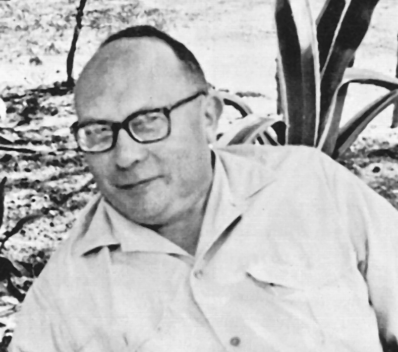 Picture of Jacques Bertin in Porquerolles in 1971.